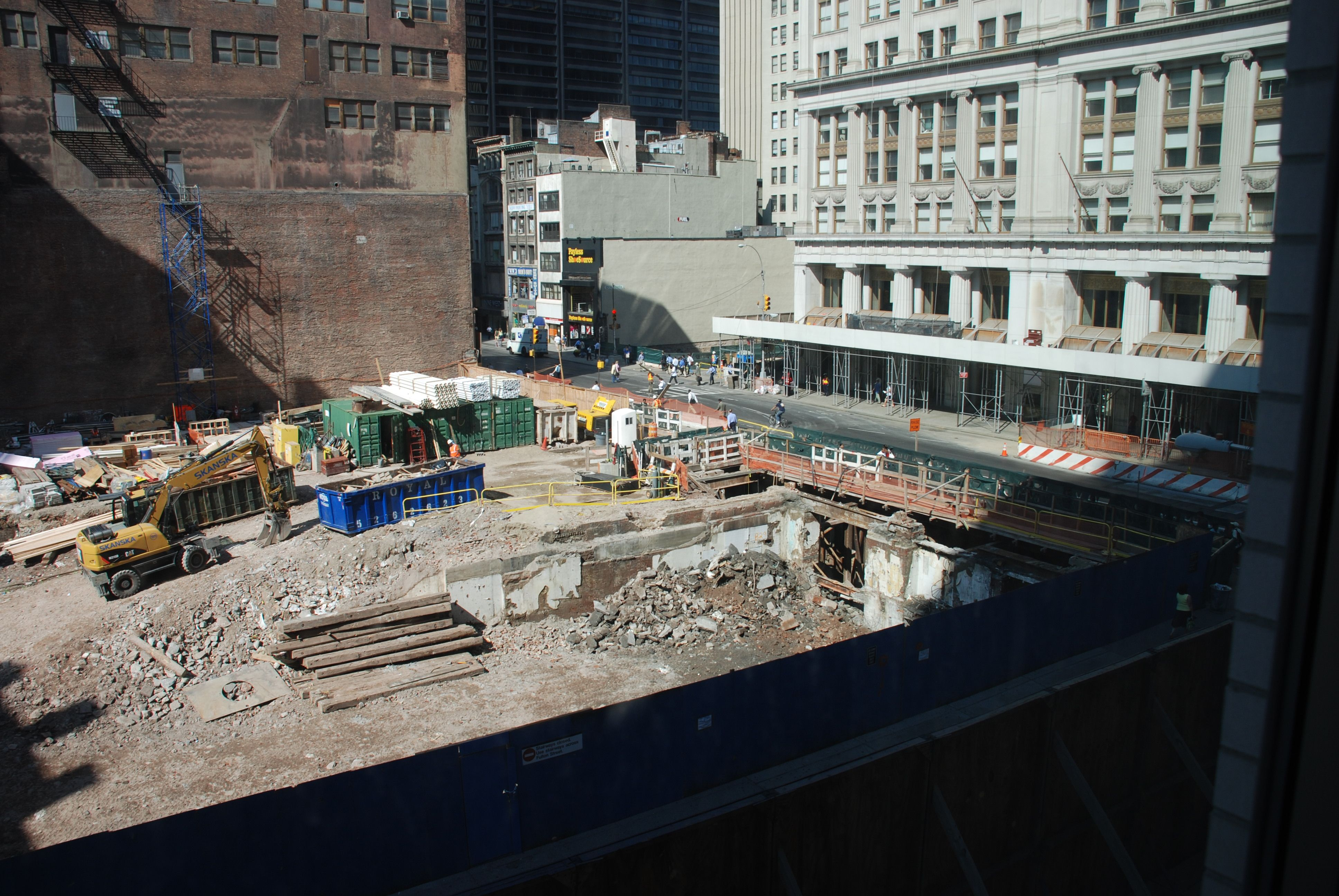 Lookng southwest at the site of the proposed MTA Fulton Street Transit Hub. Access to Lexington Ave Fulton Street Station is visible. From 200 Broadway looking past the SW corner of Broadway and Fulton Street, New York NY USA. Building on right is 195 Broadway; distant narrow street is Dey Street.